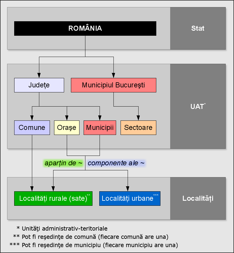 Diagram of administrative subdivision of Romania